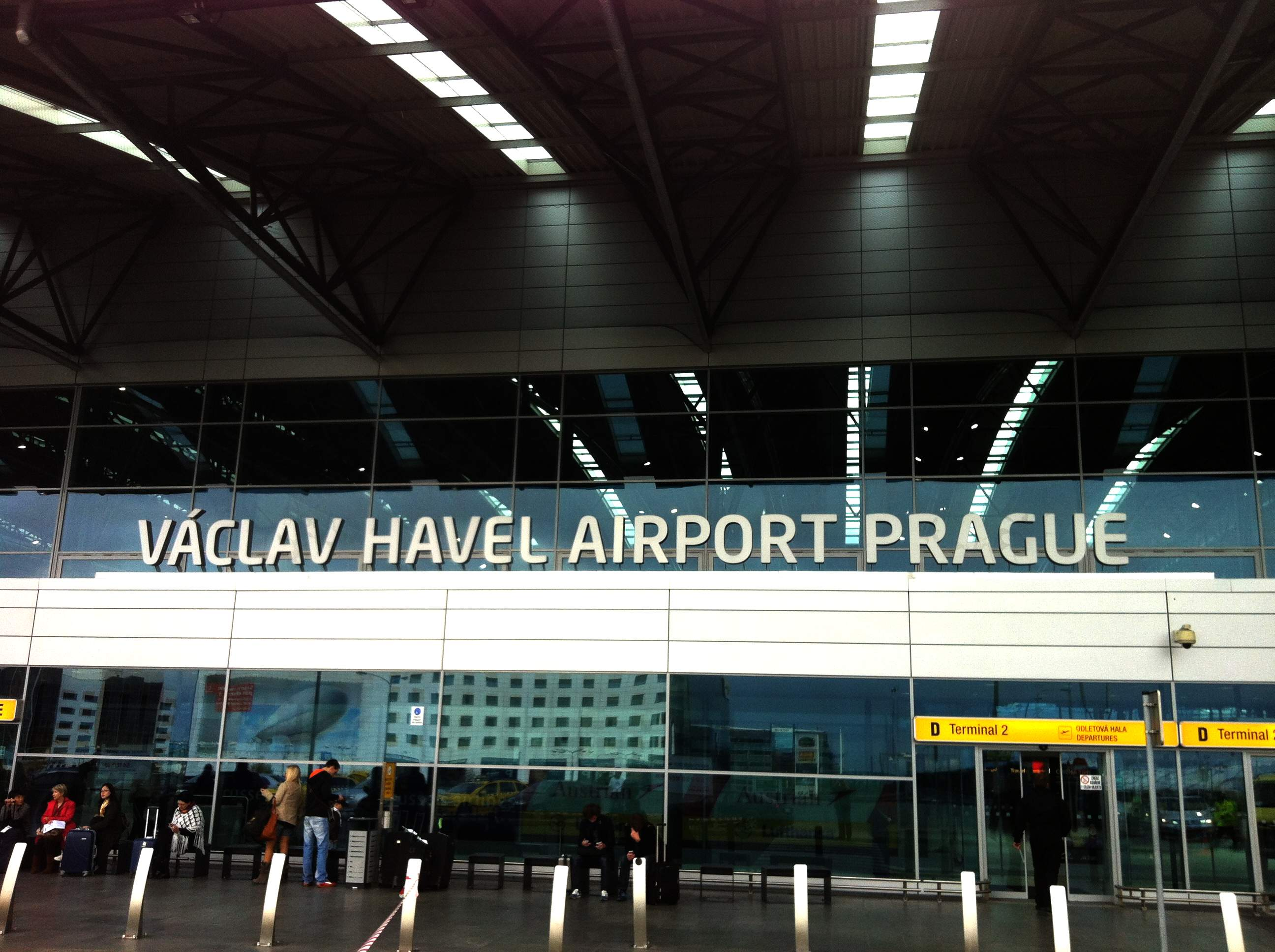 Renaming of Prague airport in honor of Vaclav Havel